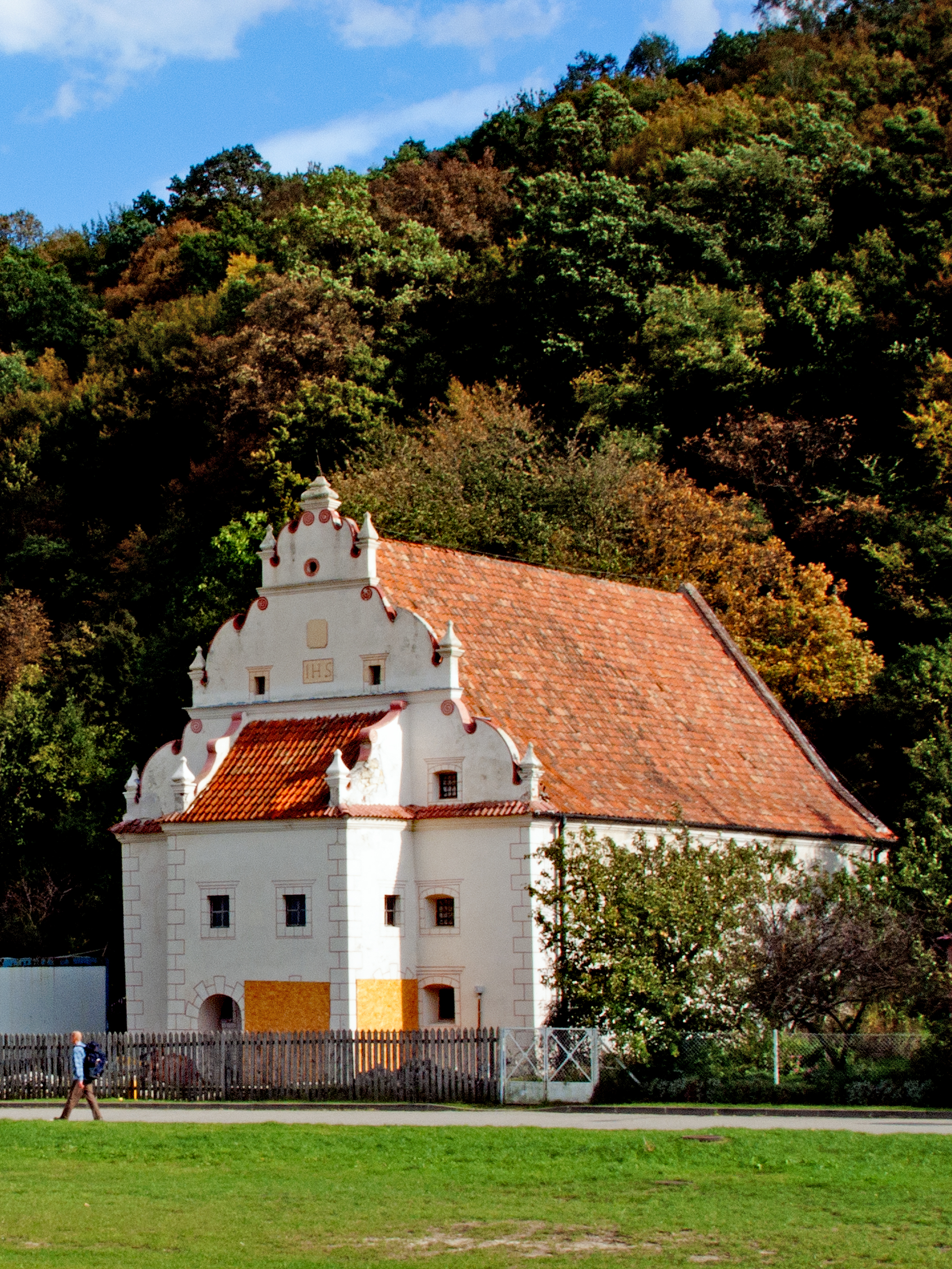 Kazimierz Dolny